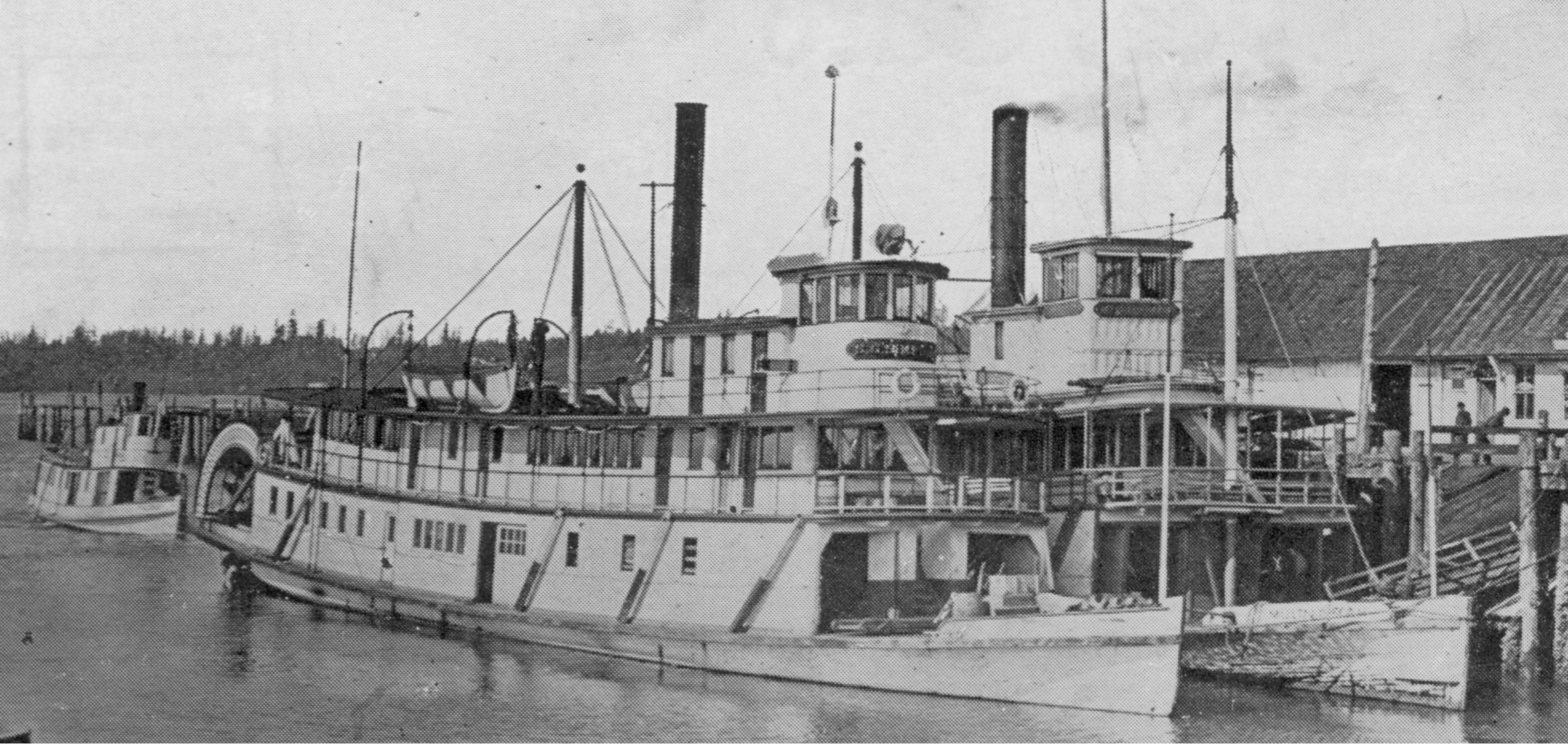 This is from a scan of an old postcard which had been mailed. There is no copyright sign shown, and the postmark date is 1911. Steamers shown are on far left (probably) the Mizpah, center S.G. Simpson and Multnomah.